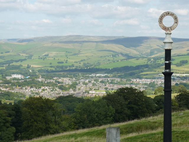 View of Chapel-en-le-Frith, with sign-post